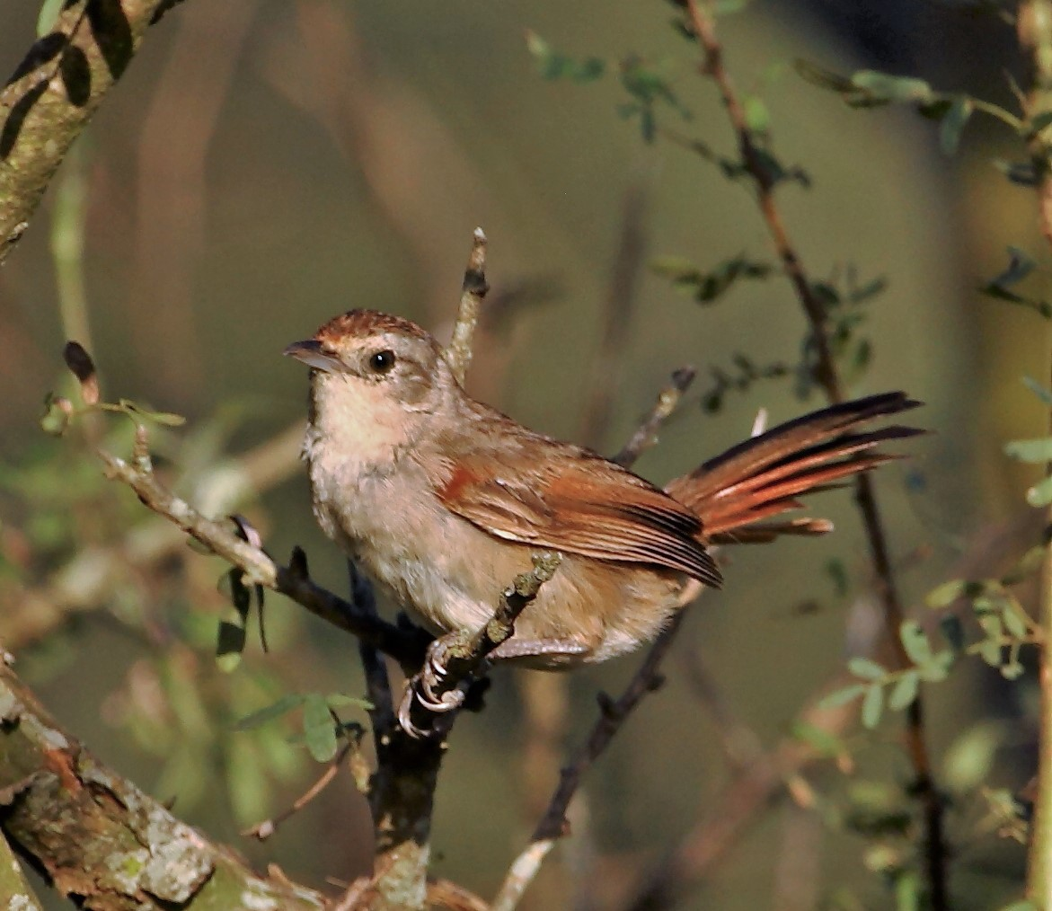 Little thornbird at Capivara - Santa Fe - Argentina